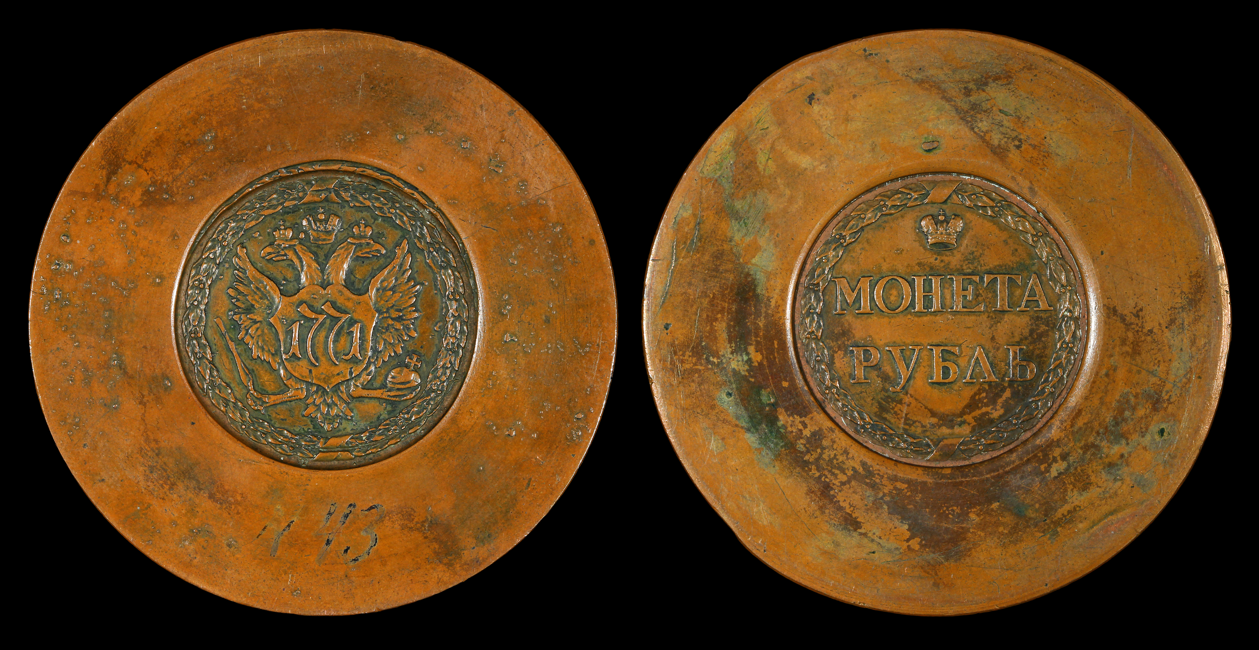 Catherine II Sestroretsk Rouble (1771) made of solid copper (77mm diameter, 26mm thick) is the largest copper coin ever issued (except for the Swedish plate money).[1] It is 1mm larger and thicker than a standard hockey puck.